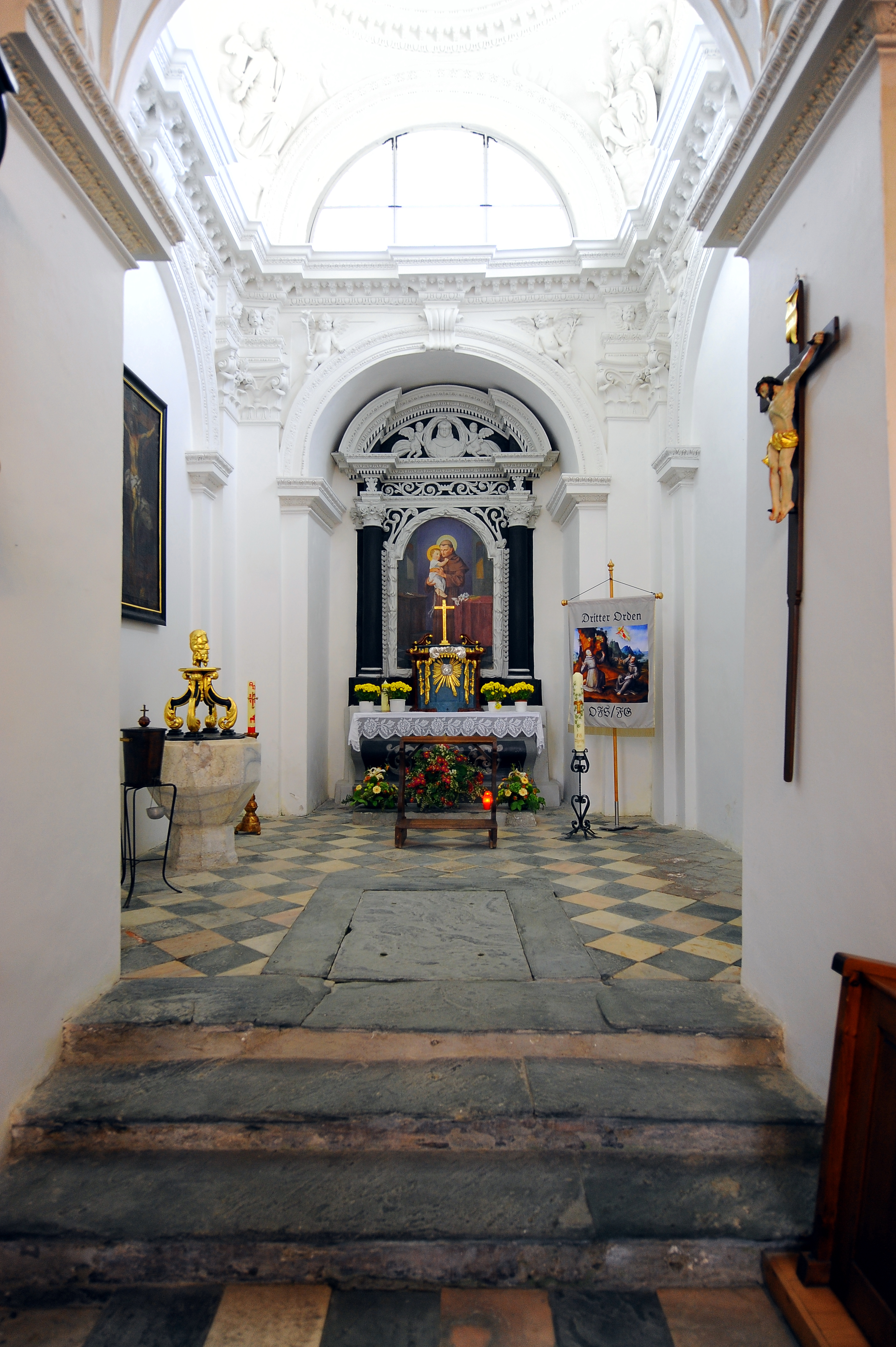 Interior view at the Saint Anthony of Padua chapel on the parish church Saint Giles in Tigring, market town Moosburg, district Klagenfurt Land, Carinthia, Austria, EU